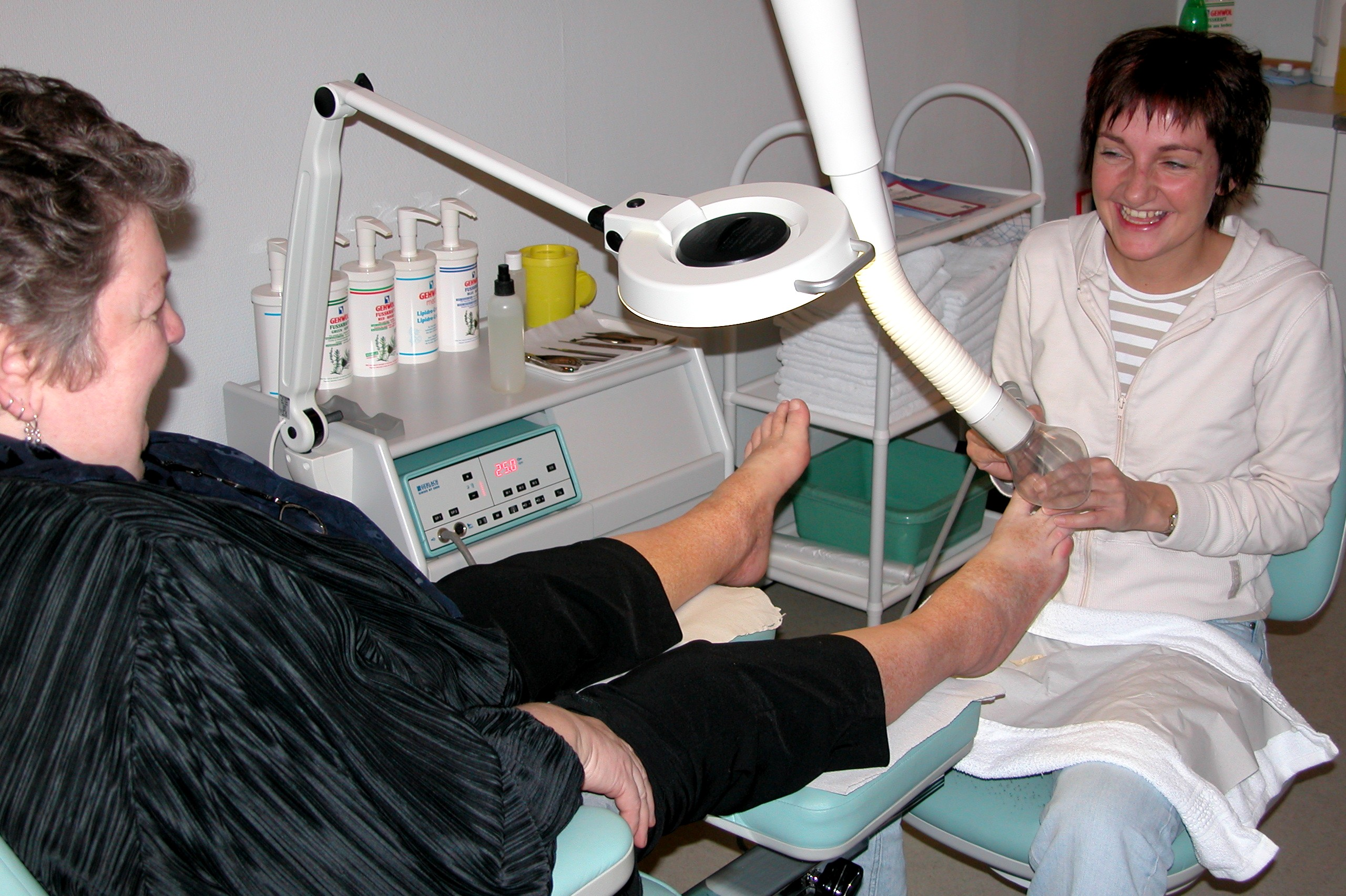 Chiropodist and her patient